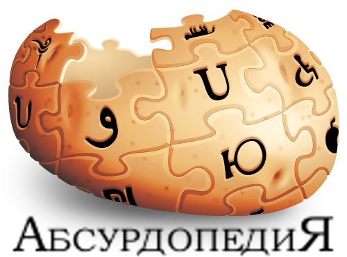 New logo of Absurdopedia on Wikia